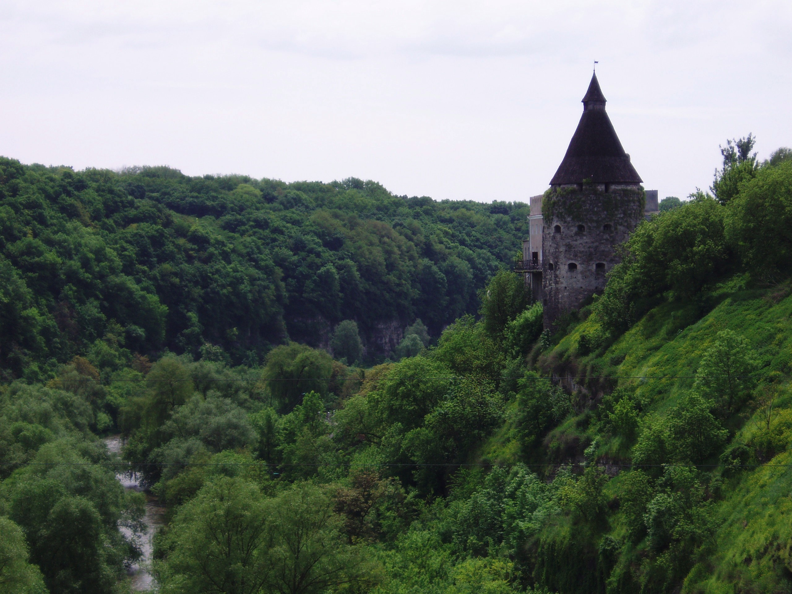 Kamyanets-Podilsky, overlooking the canyon